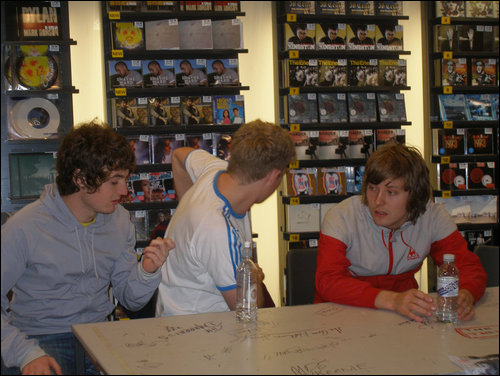 taken by me at HMV in Glasgow